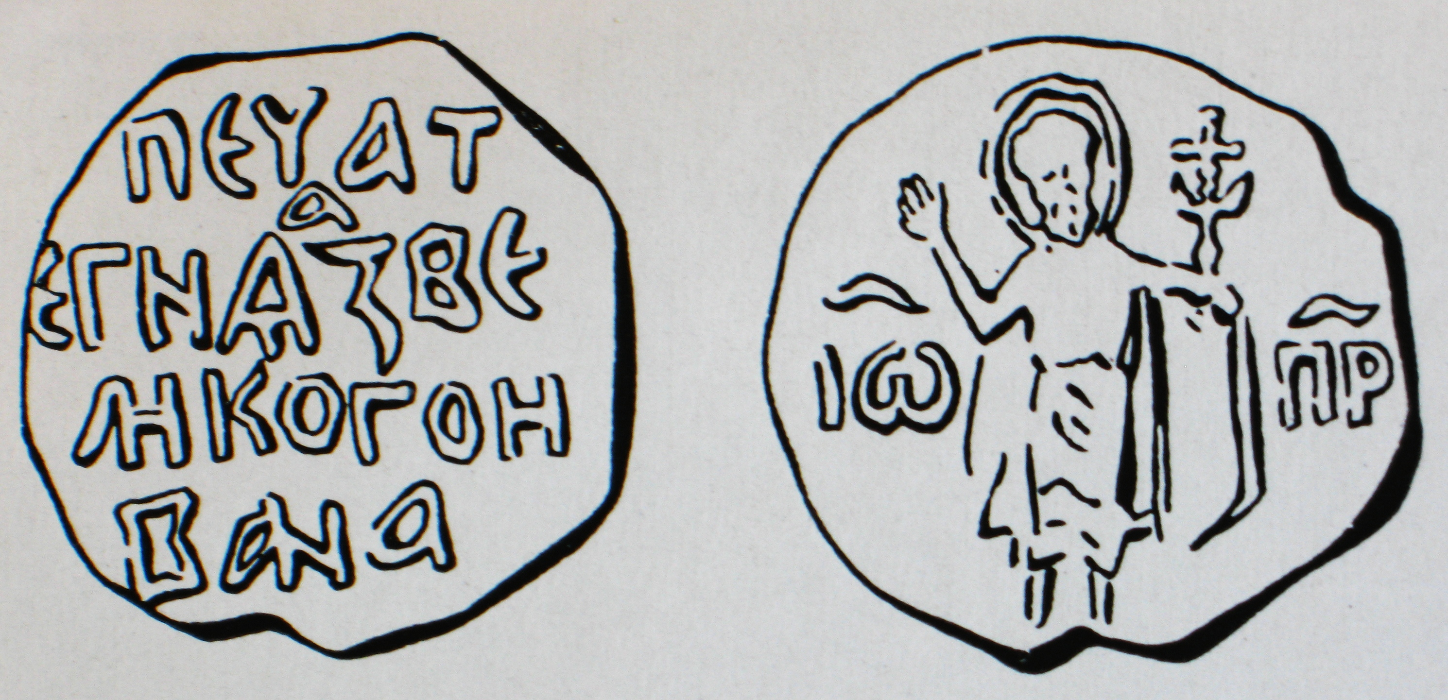 The seal of Ivan Kalita. Печать Ивана Даниловича Калиты.